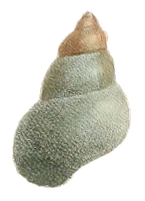 Drawing of an abapertural view of a shell of Filopaludina javanica.